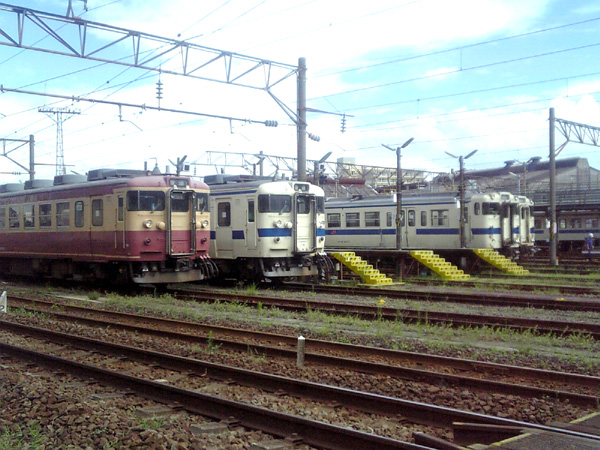 Kagoshima railway yard, Kagoshima city, Japan.